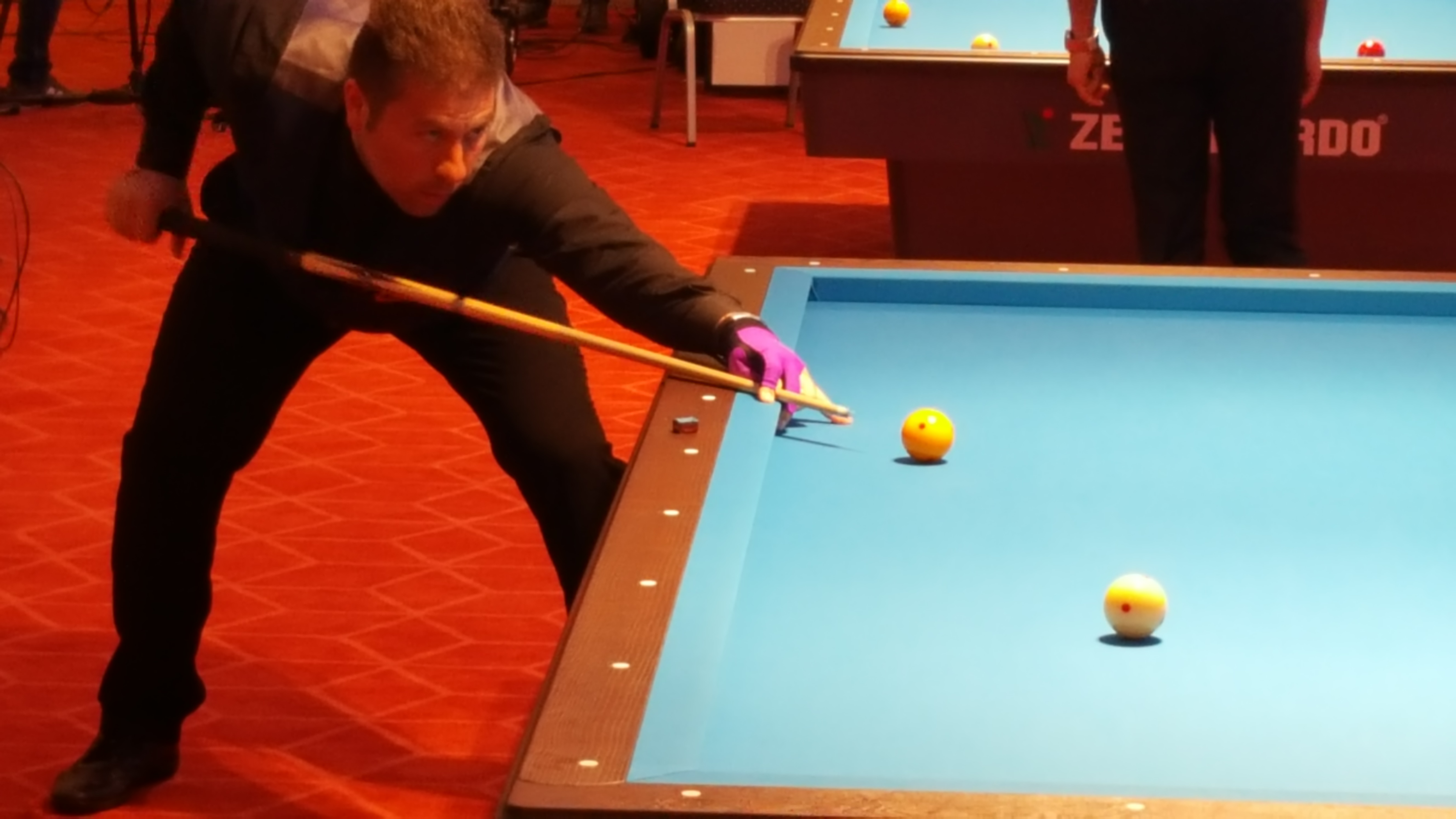 2018/1 3-cushion World Cup in Bosphorus Sorgun Hotel, Antalya, Turkey